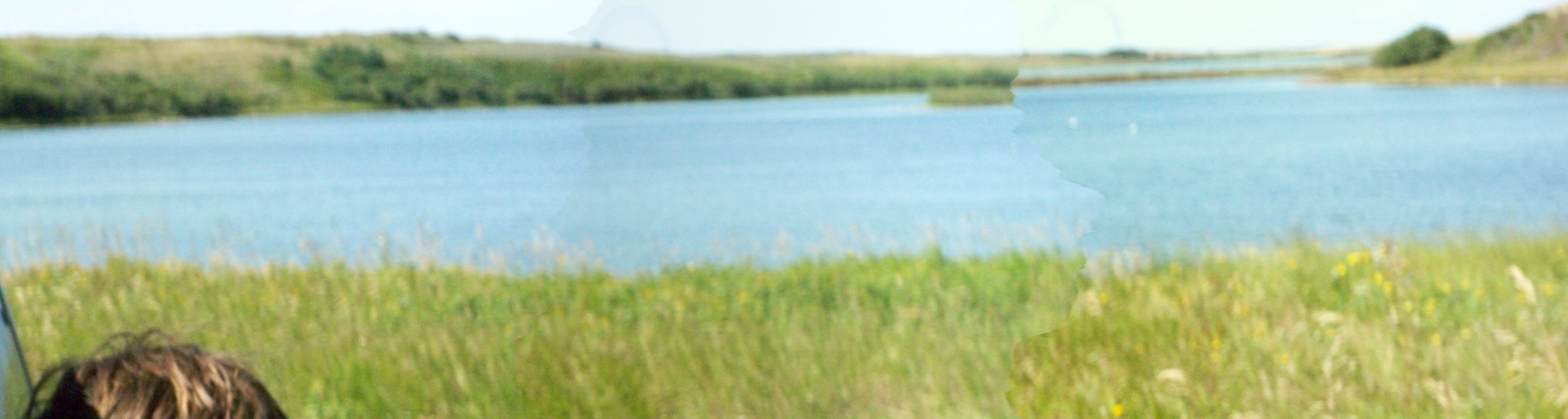 Castlewood Lake as seen from the east side.